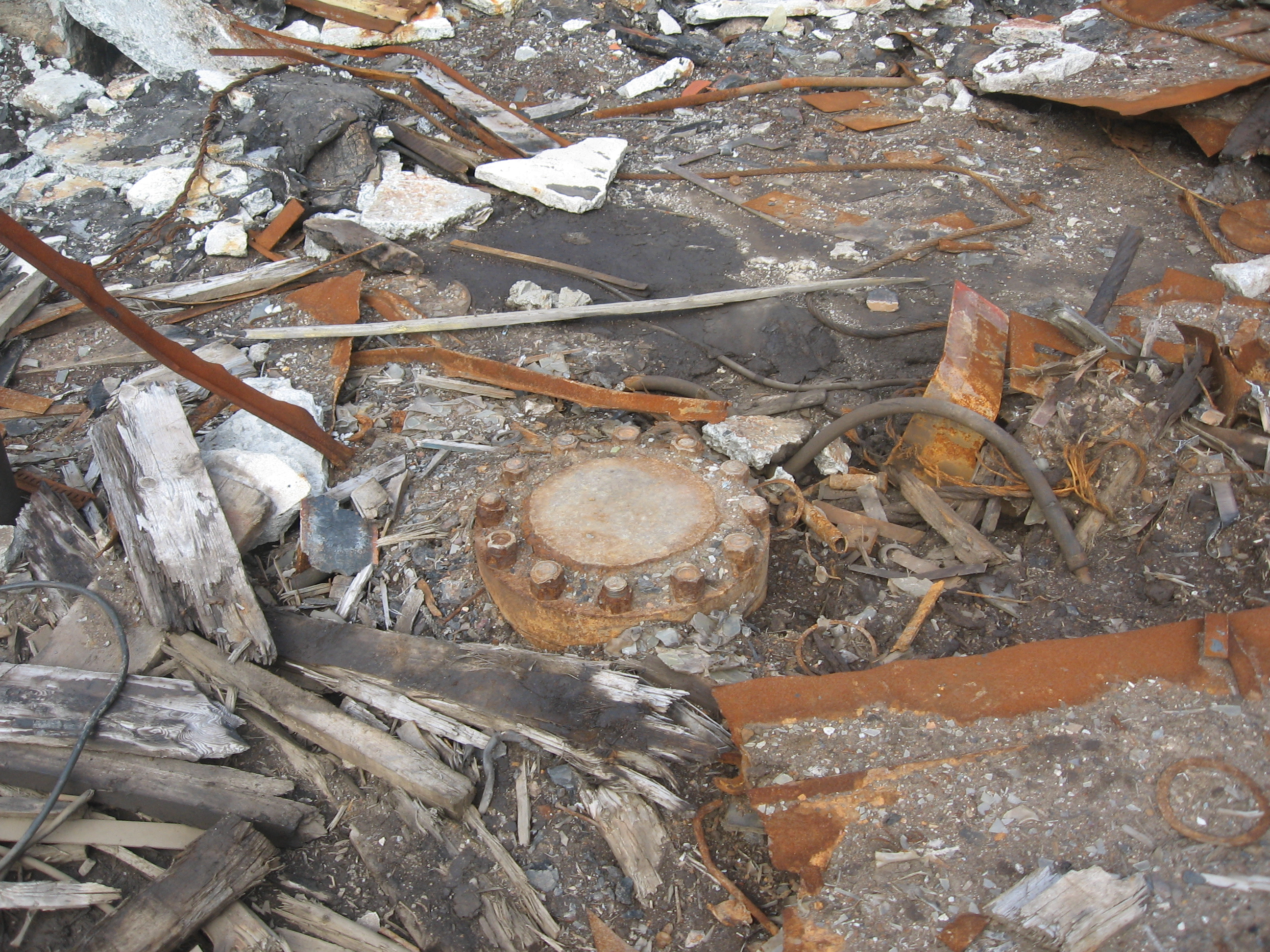 Direct view of hole. Currently welded shut.